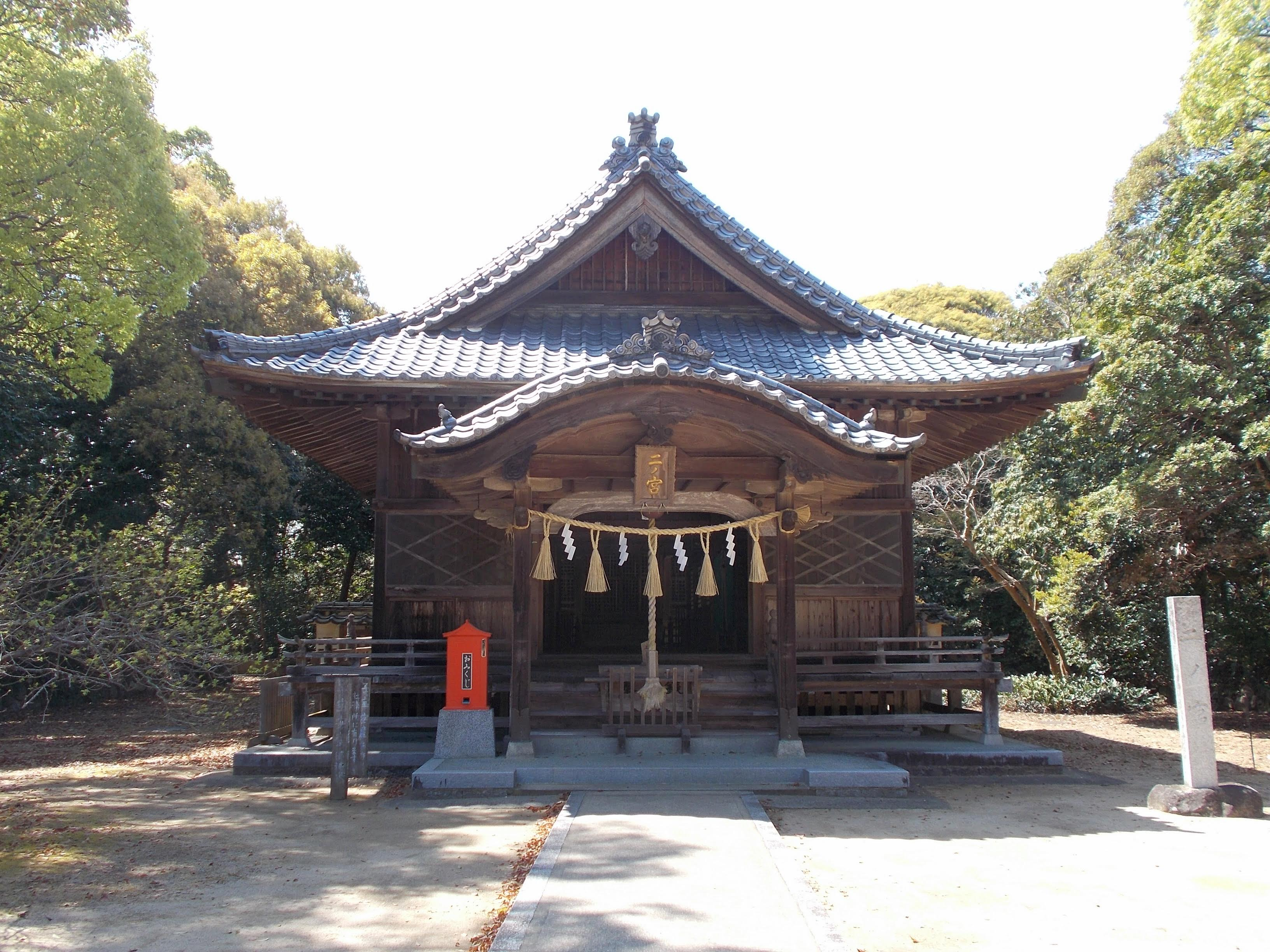 The second hall of worship in Kagami-jinja, Karatsu, Saga, Japan.